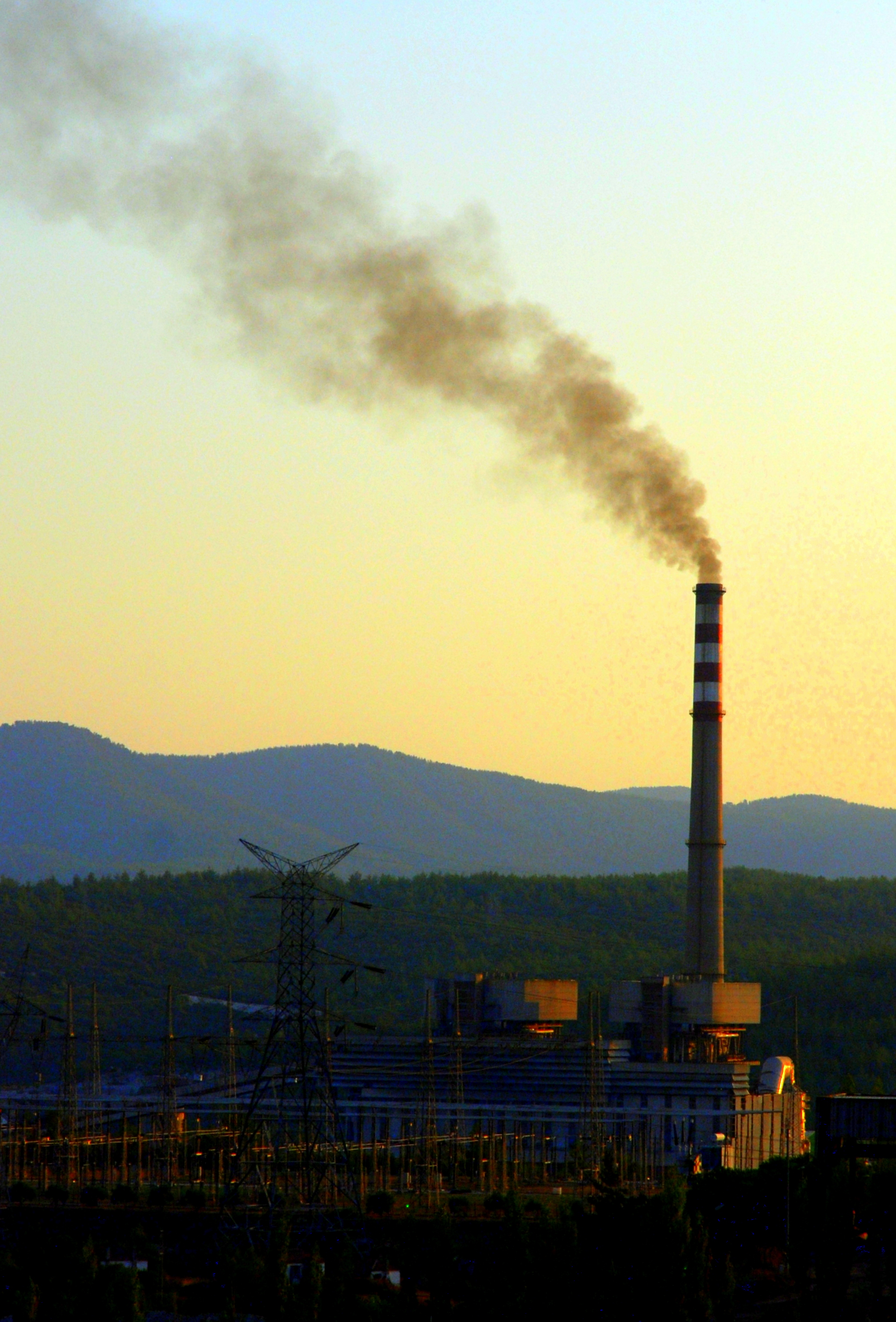 Yeniköy Power Plant in Milas, Muğla, Turkey.